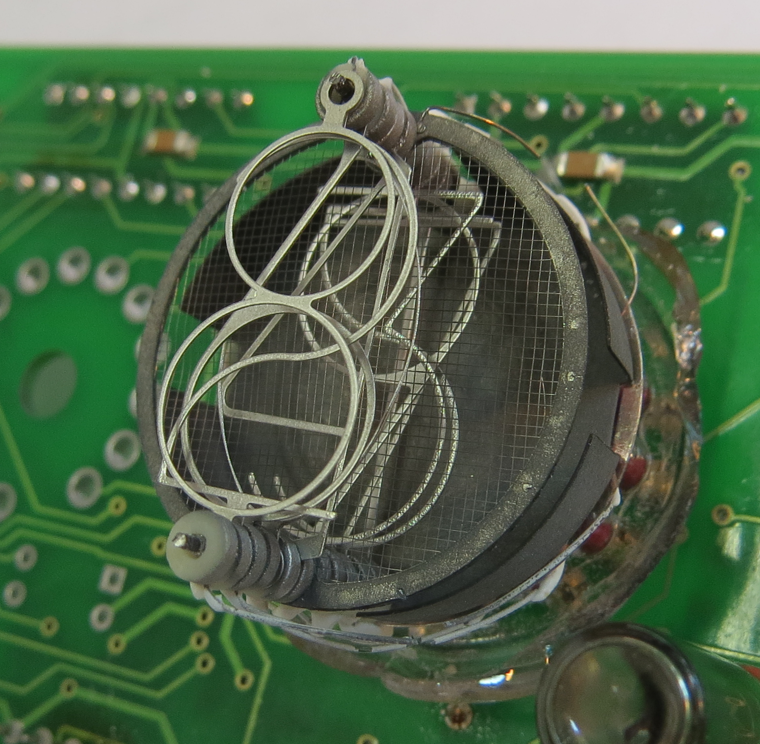 Inside the nixie tube